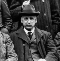 Group photograph of Geological Survey staff in Edinburgh. Back row (left to right) J.E. Richey, G.W. Lee, Carruthers, C.H. Dinham, C.B. Crampton, E.B. Bailey. Front row (left to right) G.V. Wilson, Clough, J.S. Flett, L.W. Hinxman, M. Macgregor.